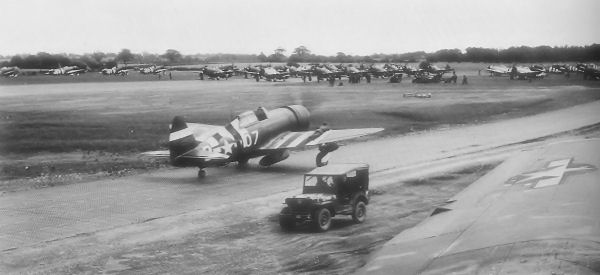 P-47 Thunderbolts of 512th and 514th Fighter Squadrons, 406th Fighter Group, prepare to take off on runway 15-33 at RAF Ashford, Kent, England. Note aircraft painted in D-Day invasion markings.